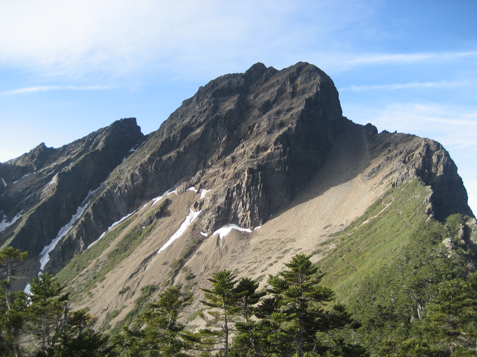 jade mountain in the morning